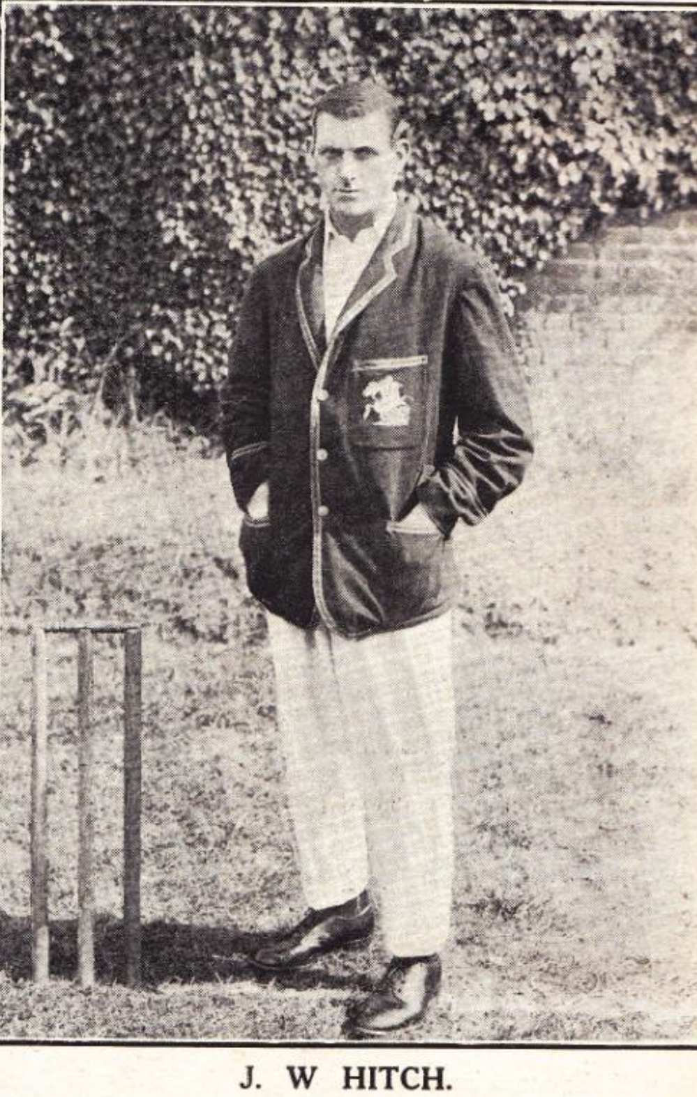 Bill Hitch, a Lancastrian who played for Middlesex and England